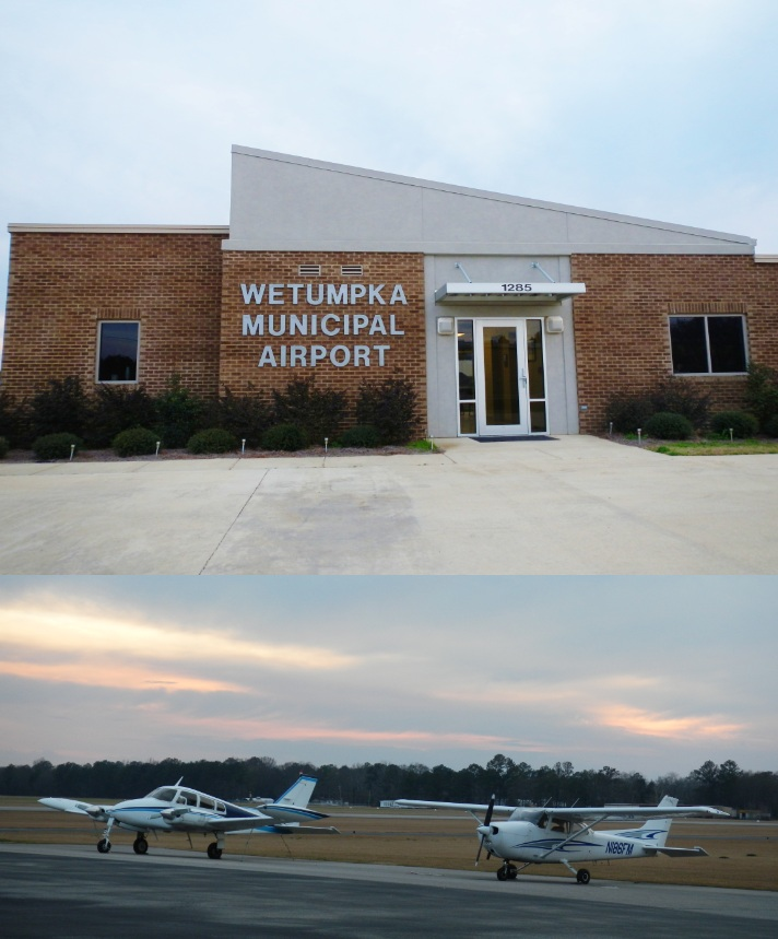 This is a photograph of the Wetumpka Municipal Airport in Wetumpka, Alabama.